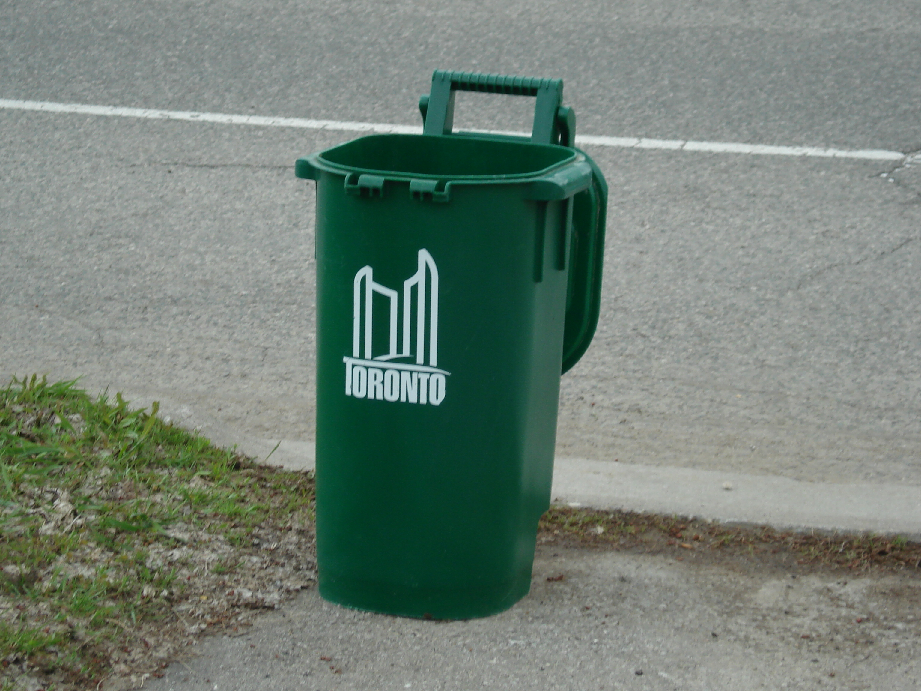 A Green Bin in Toronto, used for the municipal collection of compostable organics, that I took myself with my camera.